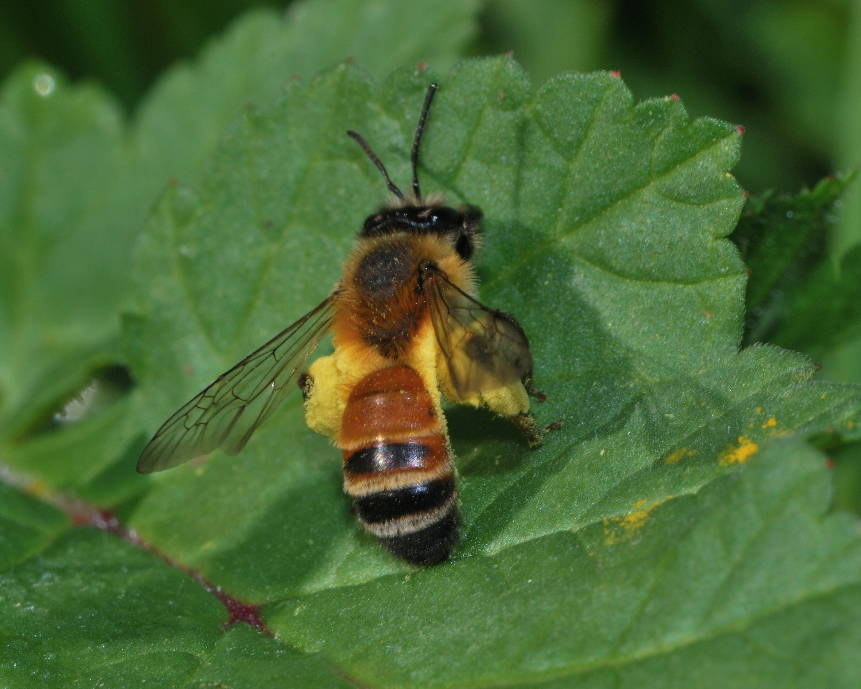 Andrena (Truncandrena) rufomaculata Friese, 1921, female, Judean Foothills, Israel, February 28, 2011.